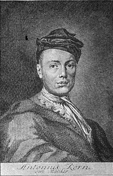 Portrait of Anton Kern (1710–1747)